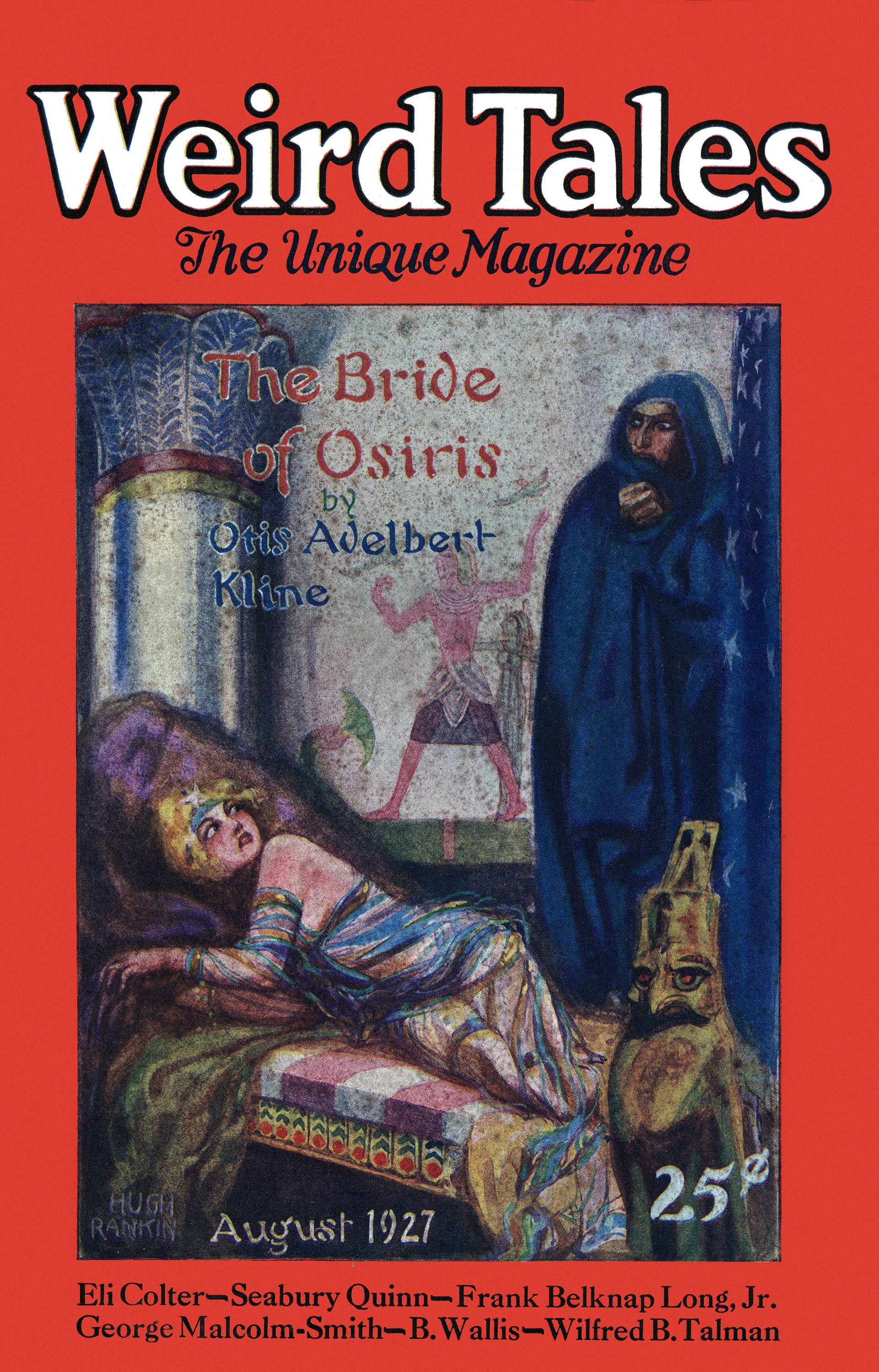 Cover of the pulp magazine Weird Tales (Aug 1927, vol. 10, no. 2) featuring The Bride of Osiris by Otis Adelbert Kline.